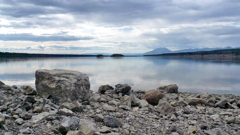 Nahanni Ranges on the horizon from east across Liard River